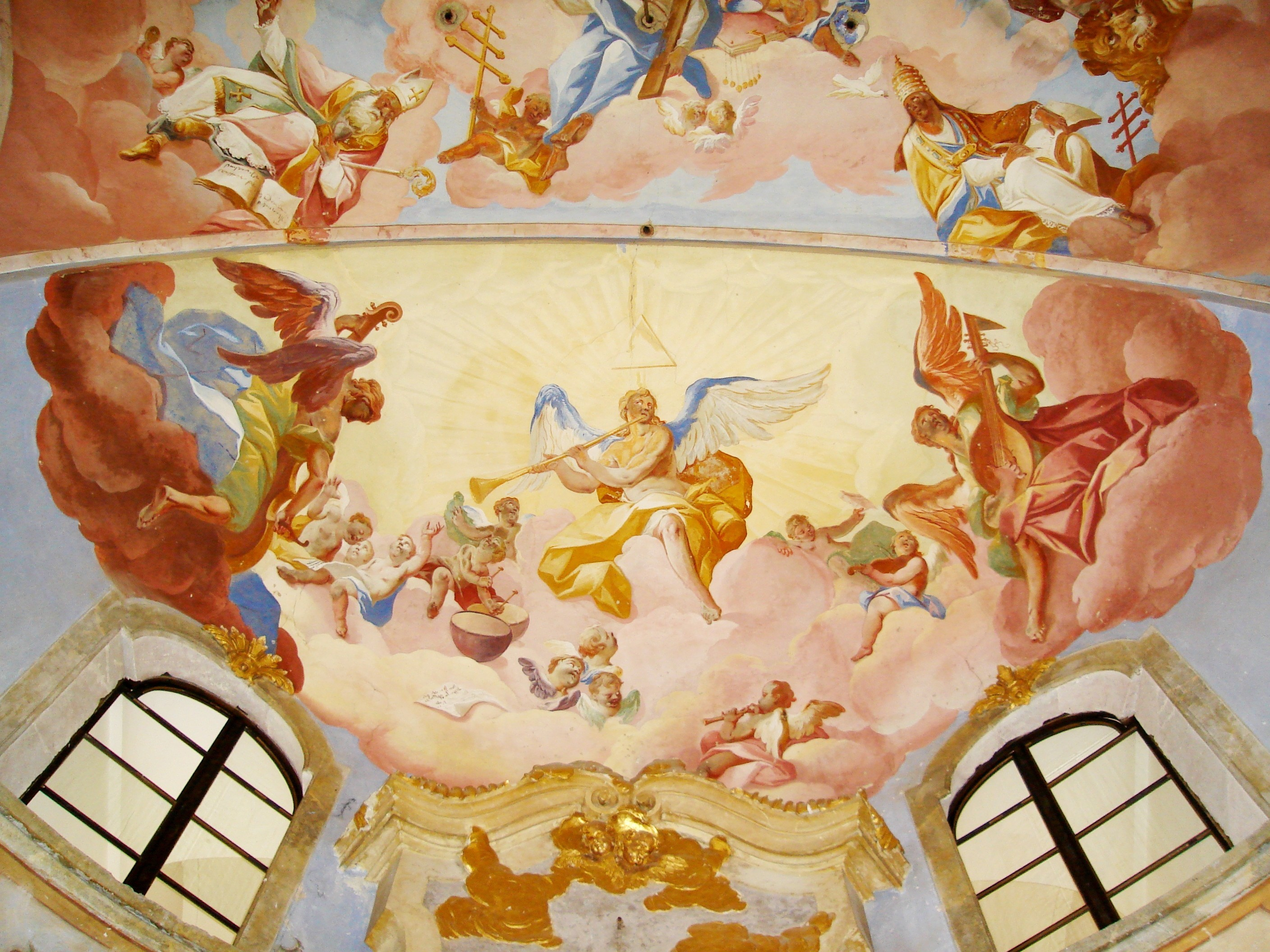 Fresco in the chapel of the episcopal palace in Fertőrákos